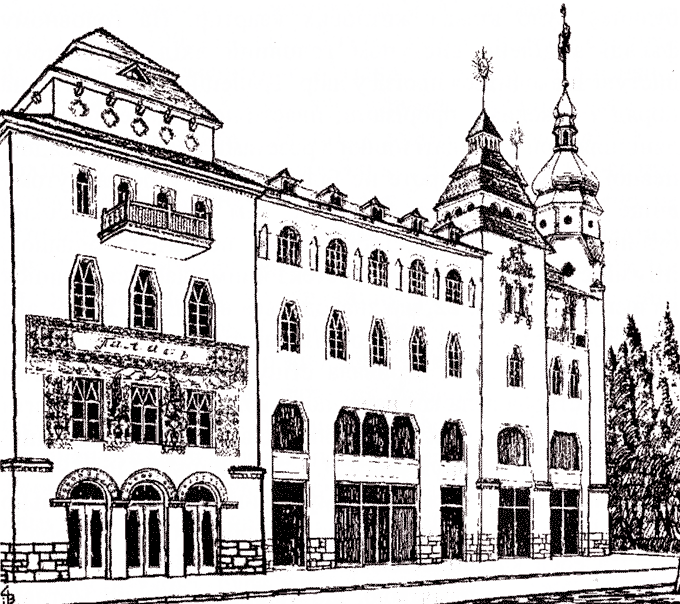 Facade of the Khrennikov House in Dnepropetrovsk, Ukraine. Drawing by Pyotr Fetisov (1877-1926)